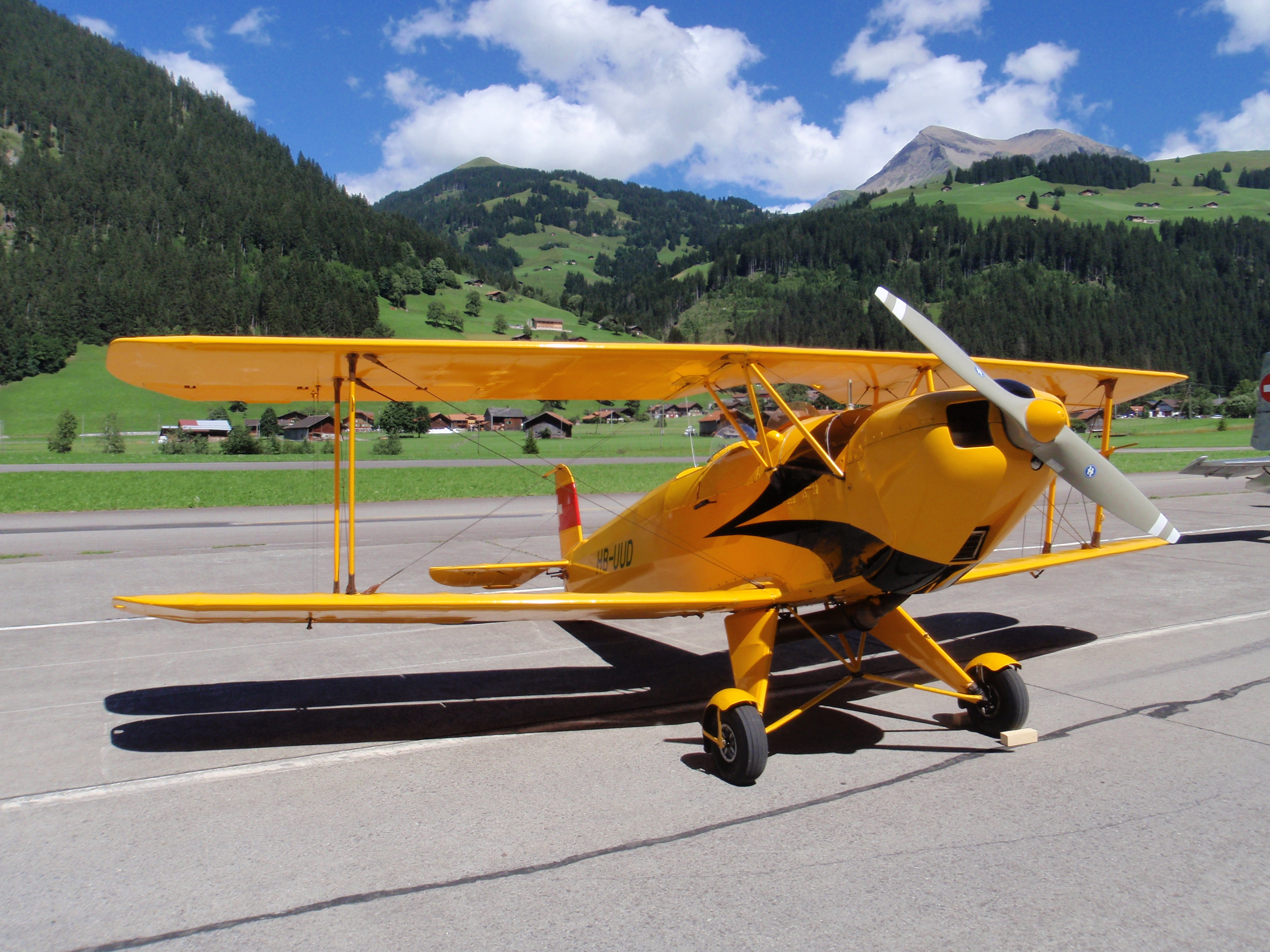 Bücker Bü 131 Jungmann HB-UUD of Bücker Fan Club, in St Stephan, Canton Berna, Switzerland. Engine Lycoming O-290-D2B